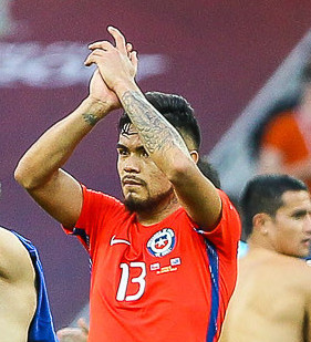 Chile VS. Australia 1 - 1, 25 June 2017